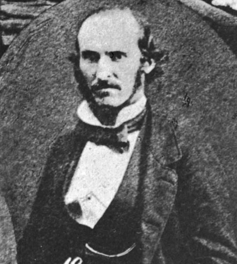 Photo of Thomas Gillies, 1860.